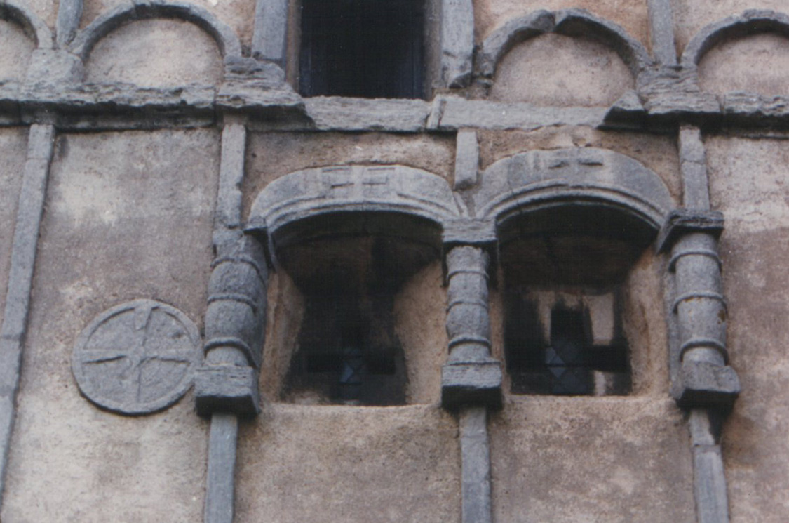 Pilaster strips and double bell-opening on the 10th-century Saxon west tower of All Saints' parish church, Earls Barton, Northamptonshire